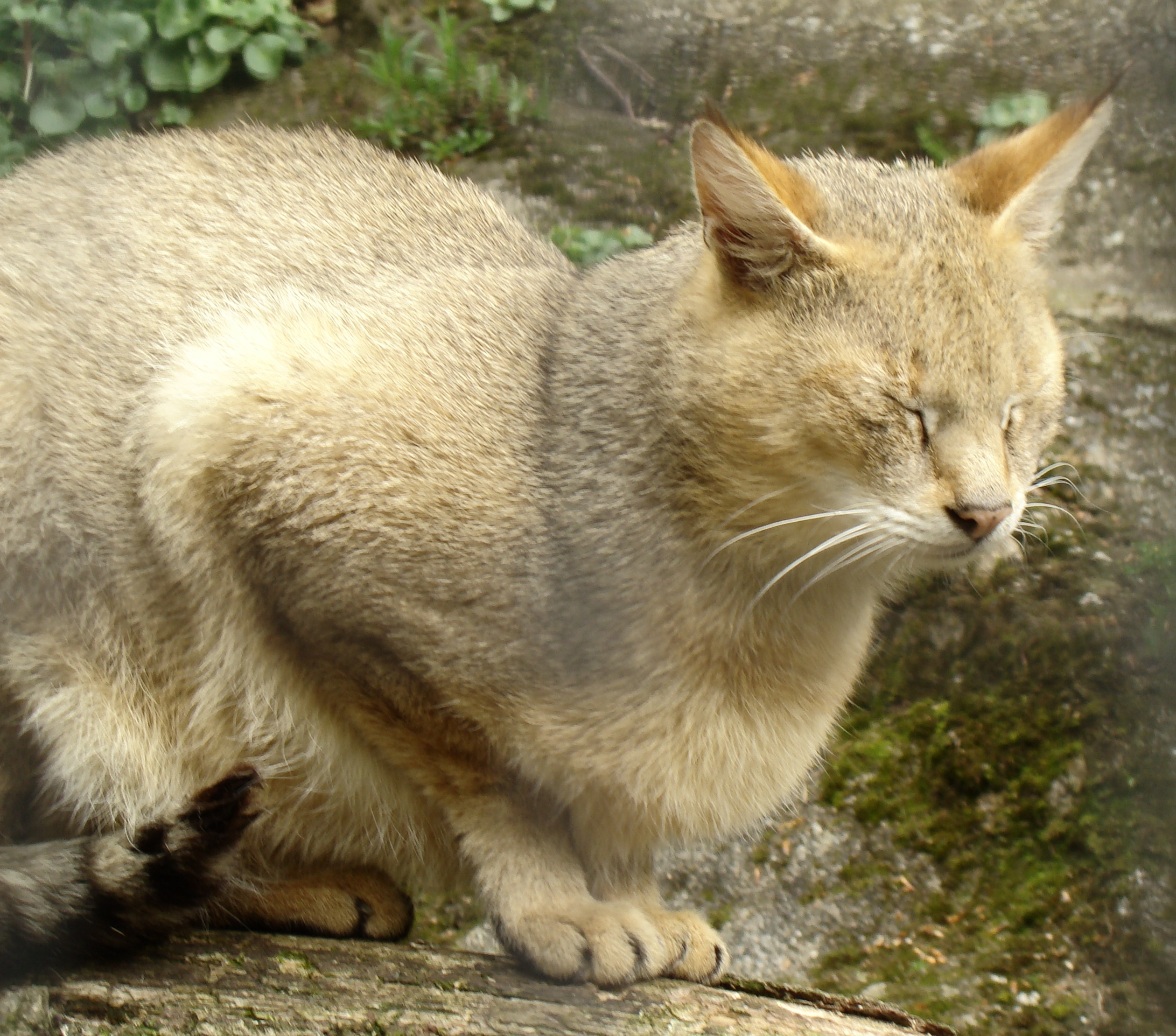 Jungle Cat in Pont-Scorff Zoo.